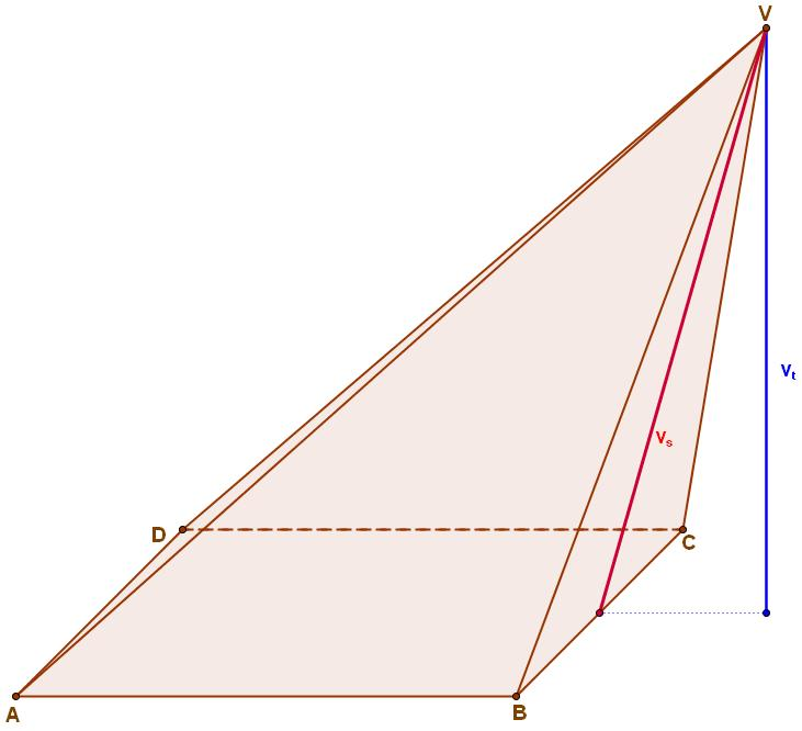 Oblique pyramid with altitudes